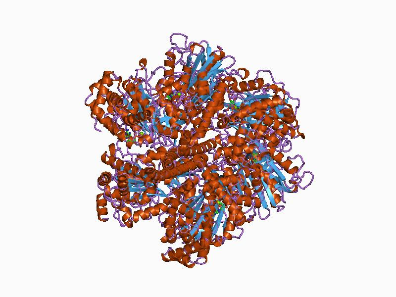 Cartoon representation of the molecular structure of protein registered with 1bmf code.